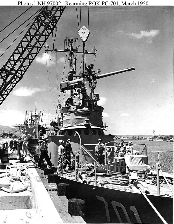 Seen here as South Korean Pak Tu San (PC-701) March 1950. Pak Tu San receiving her 3"/50 main gun at Pearl Harbor Naval Shipyard, March 1950. Photograph released 17 March 1950 by 14th Naval District PIO, with the following caption: "GUNS INSTALLED ON KOREAN PATROL CRAFT .... The Pearl Harbor Naval Shipyard on Wednesday started placing guns on the vacant mounts of the Korean Naval Patrol Craft 'Bak Dusan'. Scheduled for installation on the craft is one 3" anti-aircraft gun and six .50 caliber machine guns. The work at the local shipyard was authorized by the Secretary of Defense. Shown above are shipyard workers placing the 3" gun on the mount while Korean Naval Officers watch the operation. The 'Bak Dusan' which arrived in the Islands from New York on January 24, is en route to its homeland." U.S. Navy photo NH 97002